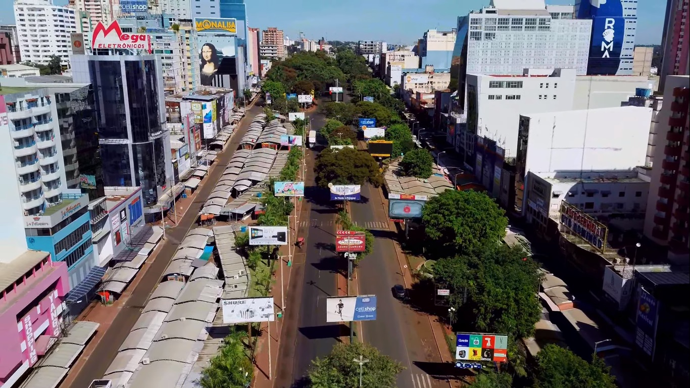 Ciudad del Este center street